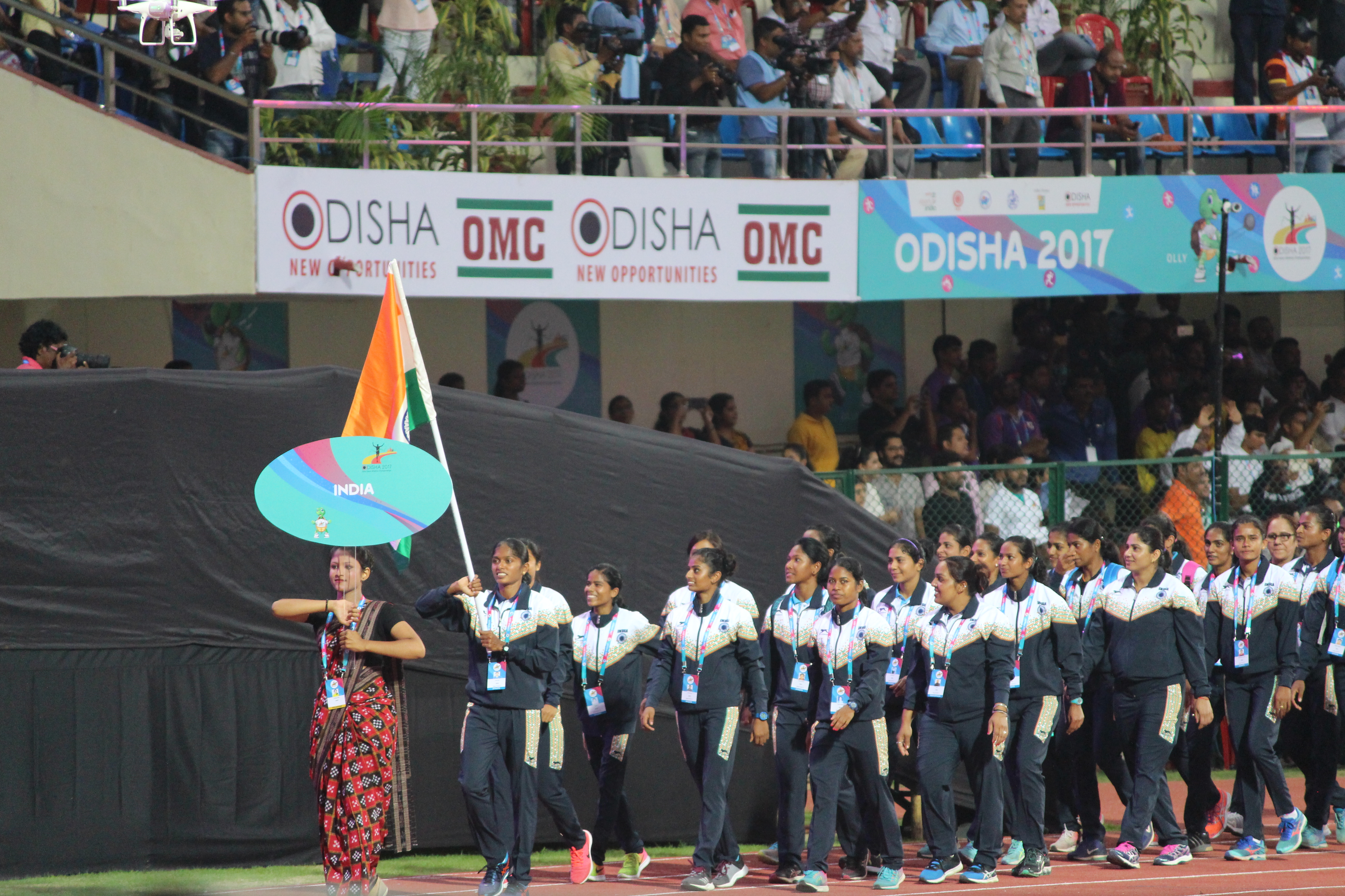 Athletes from India bearing the national flag during the opening ceremony of 22nd Asian Athletics Championships.